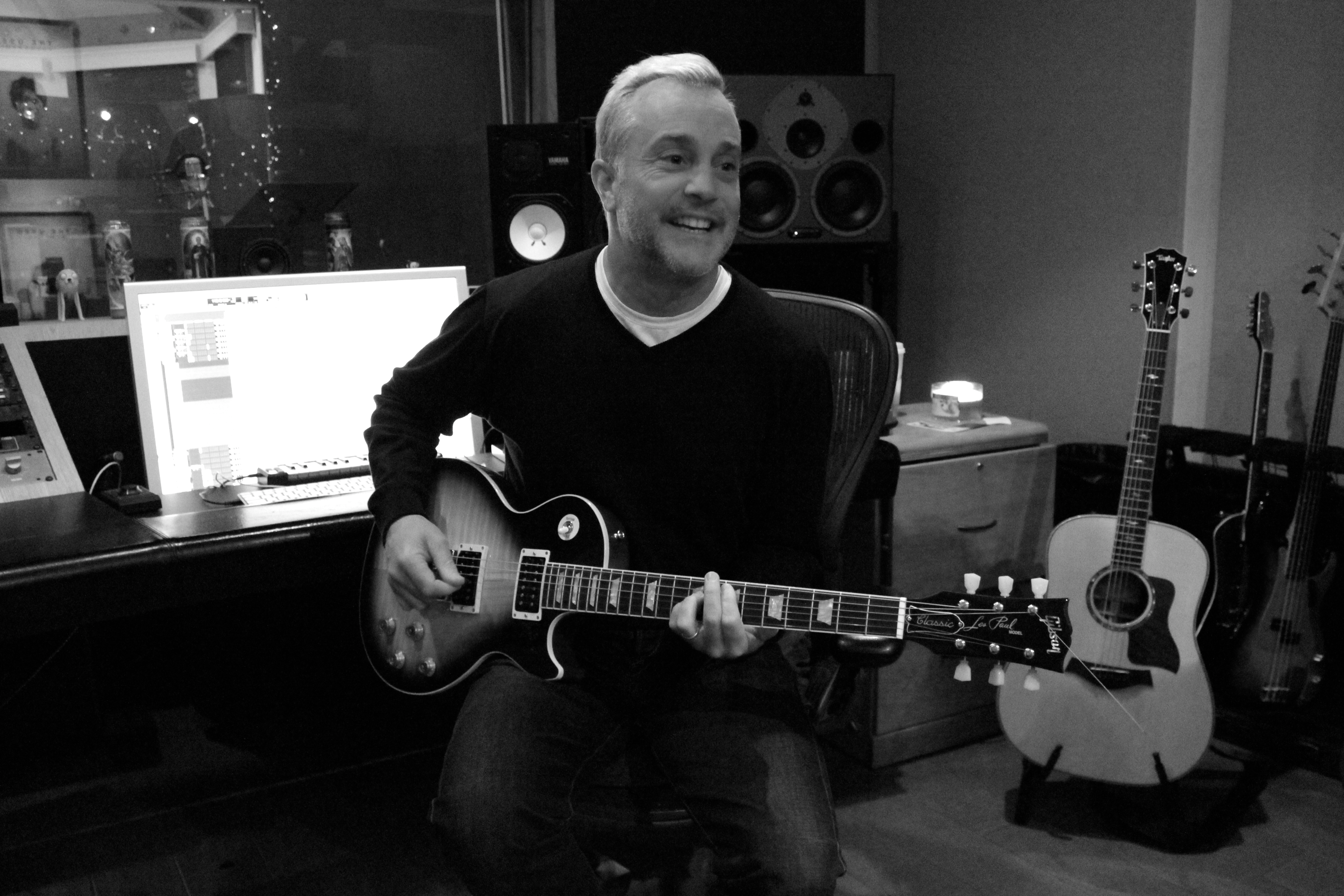 John Feldmann playing guitar in studio